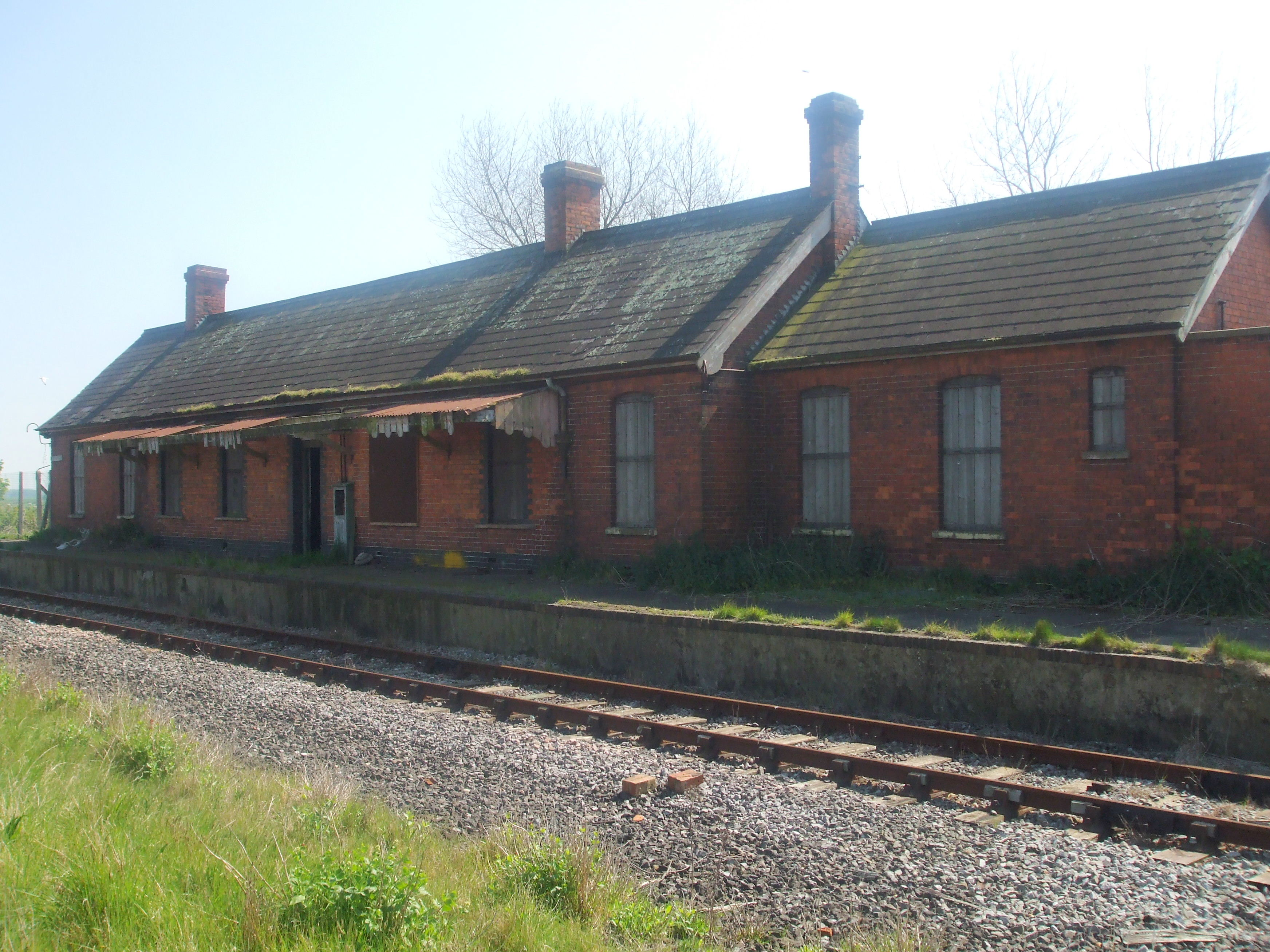 Lydd Town Railway Station, Kent